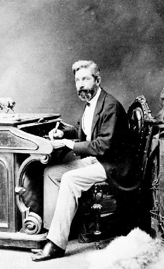 The Hon. John Sebastian Helmcken, circa 1854. Found in en: Archives. Photographer/Artist: William J. Topley, Notman Studio (died 1930)